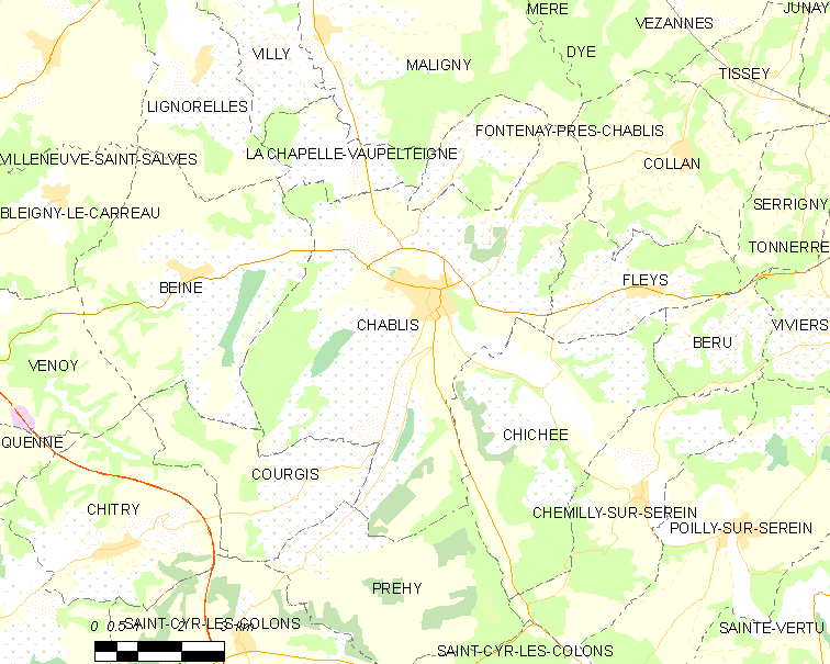 Map of French municipality Chablis